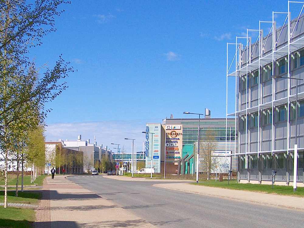 Buildings of Technopolis Plc at Teknologiakylä in Linnanmaa, Oulu, Finland.